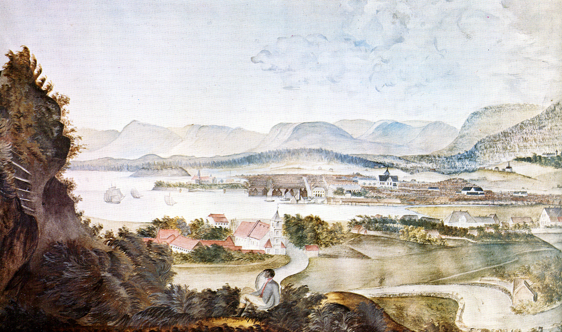 Painting dated July 19, 1814, of Christiania (now Oslo) from Ekeberg. Prominent houses are exaggerated for visibility, as are the surrounding hills.